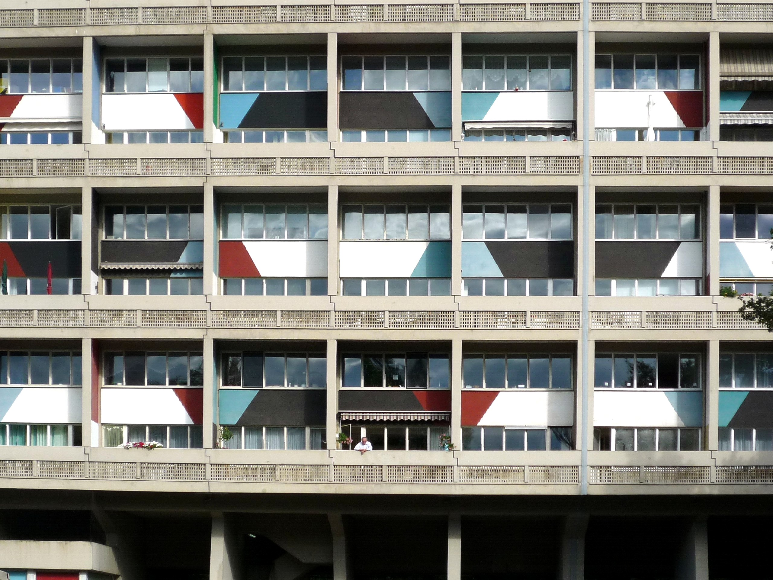 The "Corbusierhaus" in Berlin (Unité d'Habitation, type berlin). Built for a international exhibition (Interbau) in 1957. Architect: Le Corbusier. Partial view.